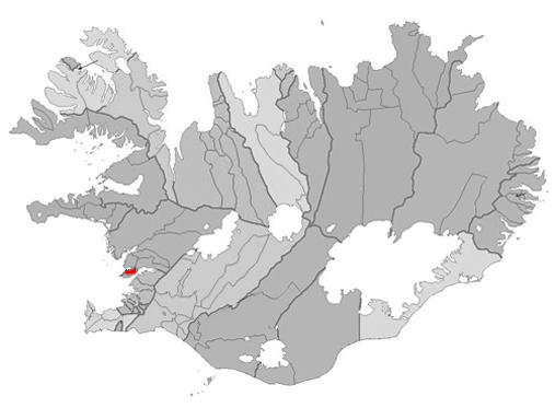 Based on Municipalities of Iceland.png.